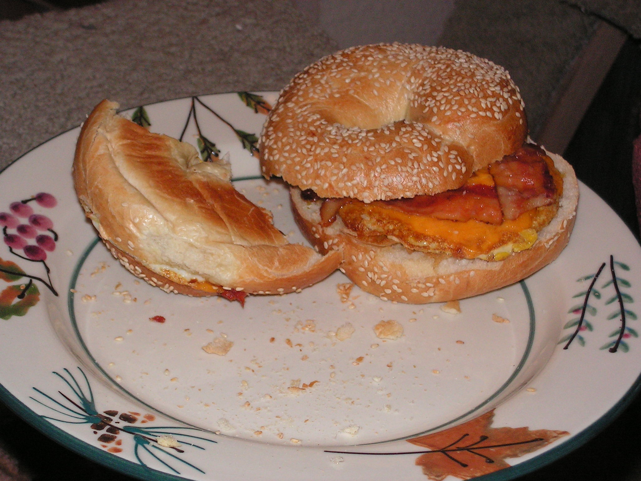 Buttered sesame bagel with bacon, yellow cheddar, and fried egg over hard.